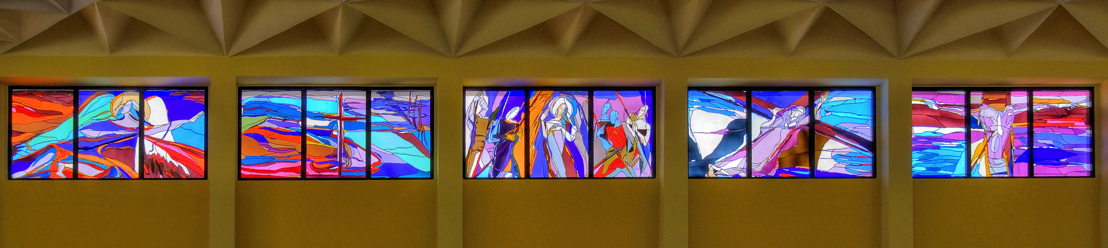 Stained glass, Church of the Holy Heart of Jesus, Śrem, Poland